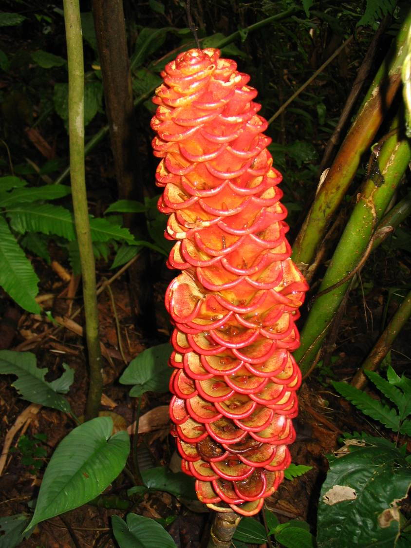 Zingiber spectabile